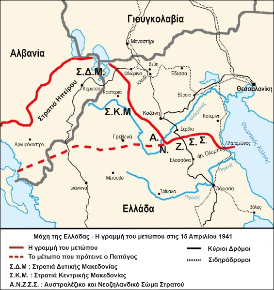 Map in Greek of the battle of Greece in April 1941, showing the front line on 15th April and the shorter line proposed by General Papagos.